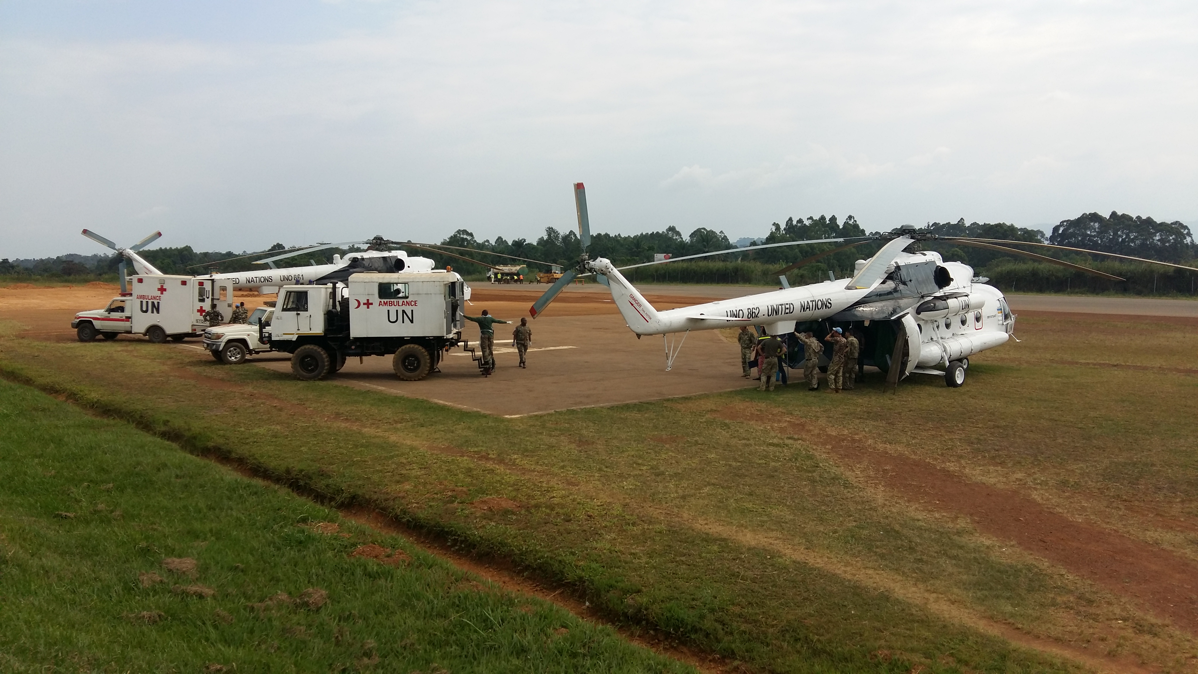 Beni, Mavivi airport, North Kivu, DR Congo: 8 December 2017, medical evacuation to Goma of peacekeepers wounded in the deadly attack by alleged ADF, against a base of the MONUSCO Force in Semuliki, on Thursday, 7 December 2017. 15 MONUSCO peacekeepers were killed and 53 wounded. Photo MONUSCO/ Anne Herrmann